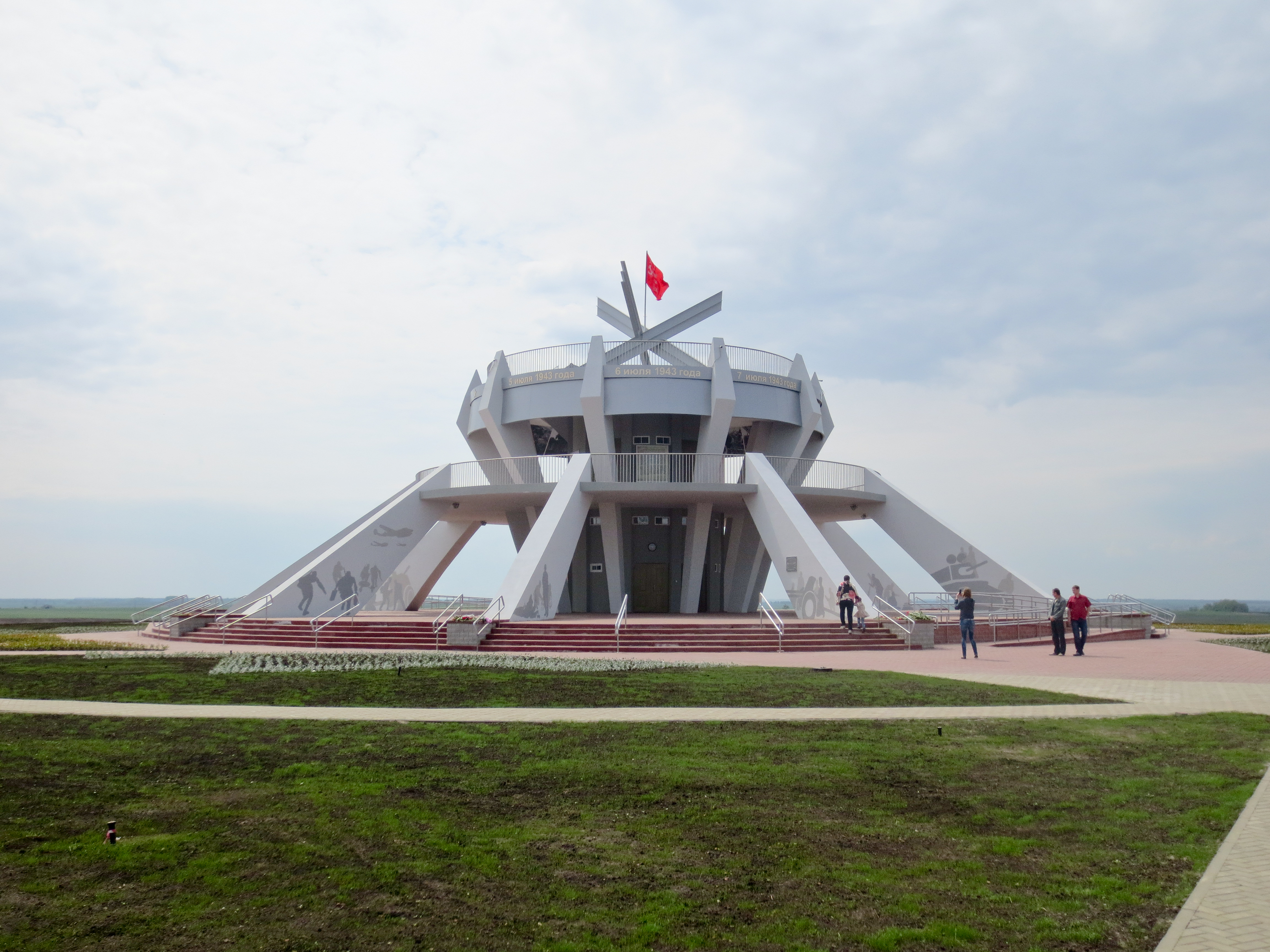 Memorial "Teplovsky's hills" in honor of the memory of the fallen on the northern fase the Battle of Kursk